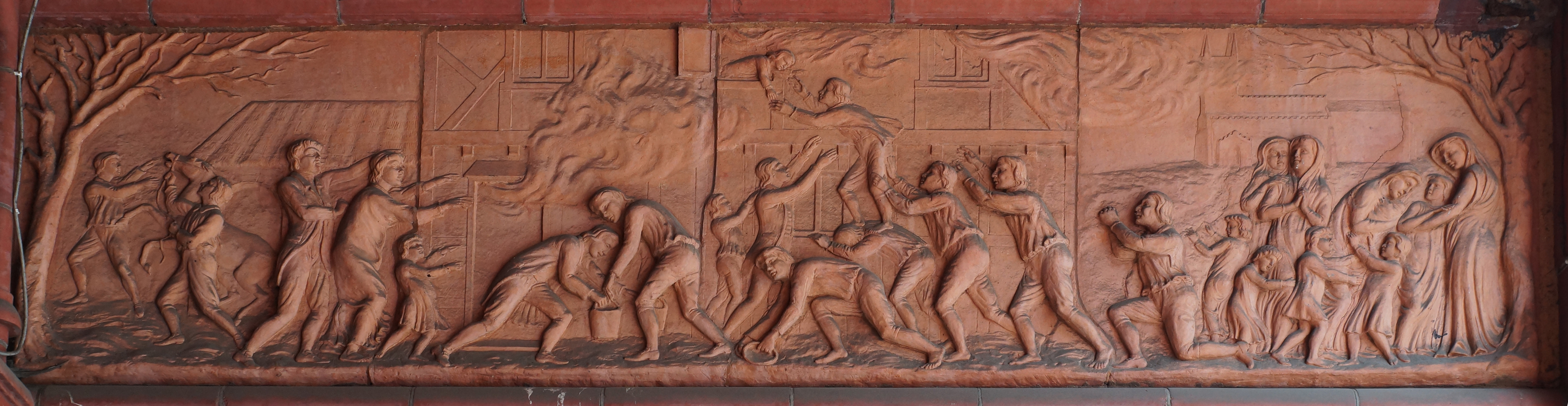 One of two terracotta relief sculptures, Events in the Life of John Wesley, in the porch of Methodist Central Hall, Birmingham, England by Tamworth firm Gibbs and Canning Limited, c1900-1903. Perspective correction modified in Photoshop.